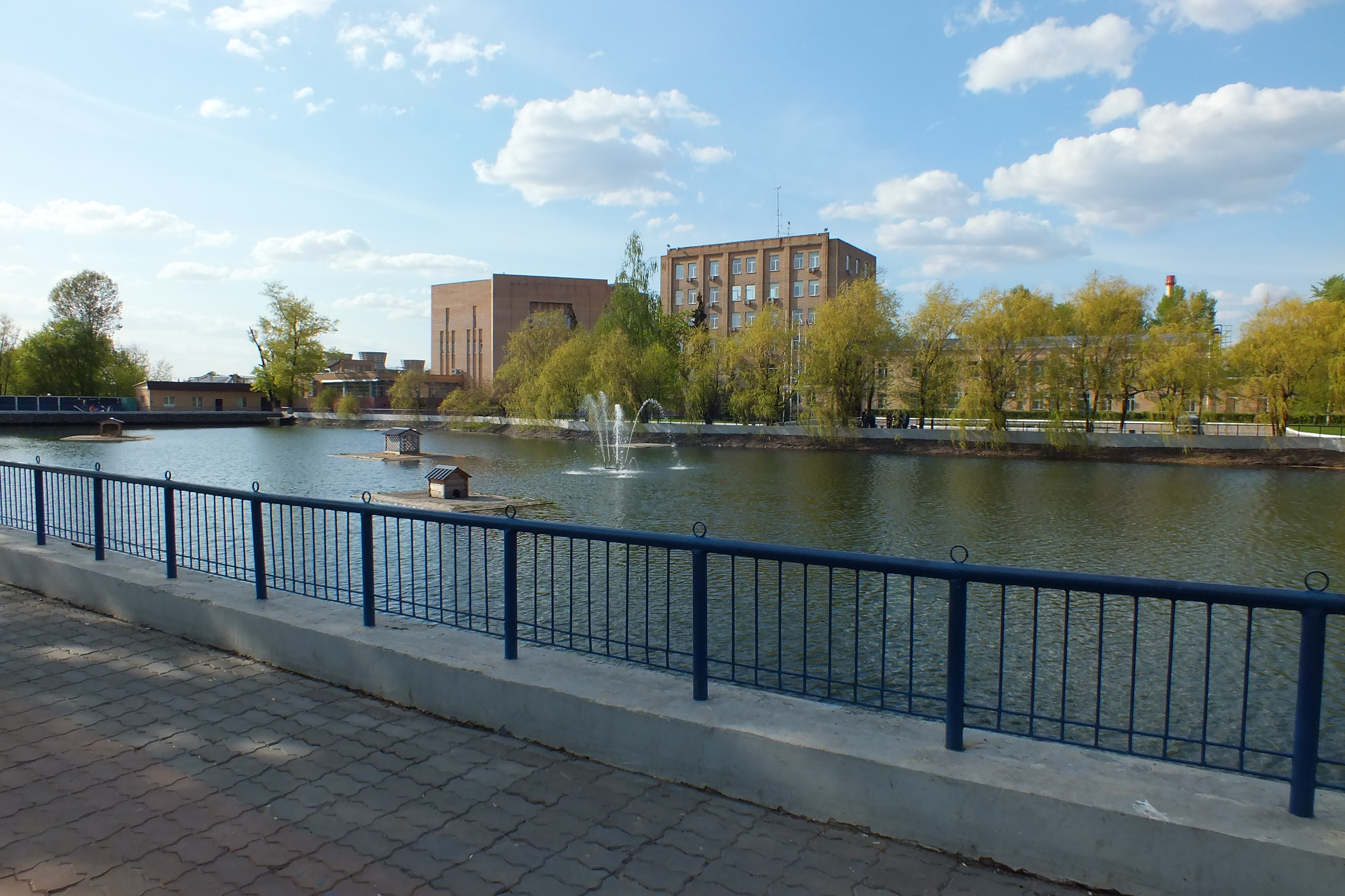 Moscow Oil Refinery in Kapotnya district. Artificial pond on a (now non-existent) brook in front of the refinery office buildings